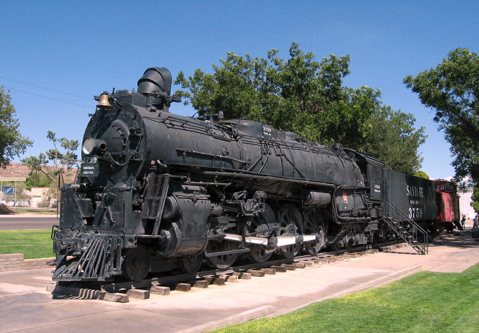 ATSF #3759 at Locomotive Park in Kingman, Arizona.